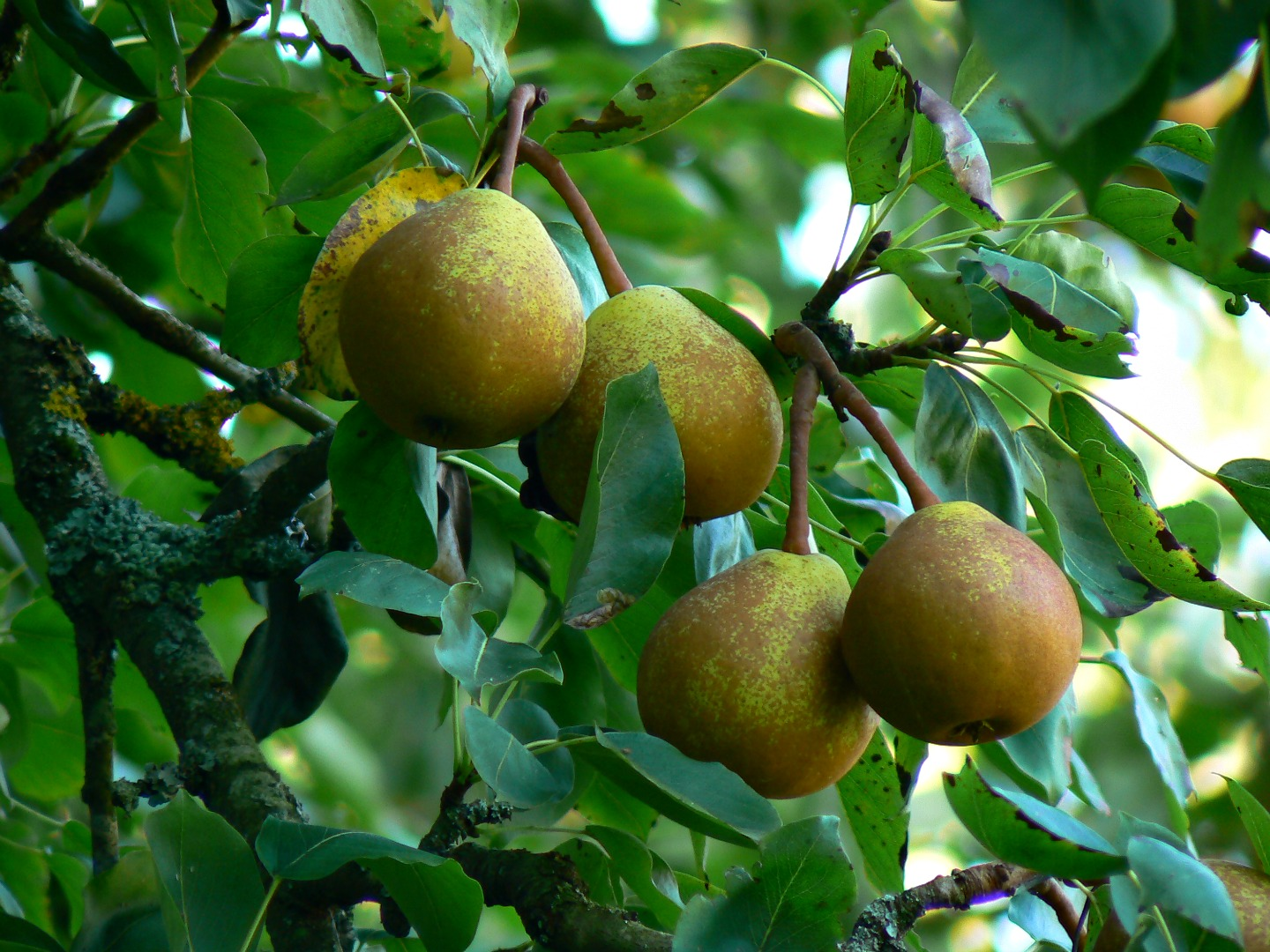 Perry pears, Nichols Orchard, Dyrham Park